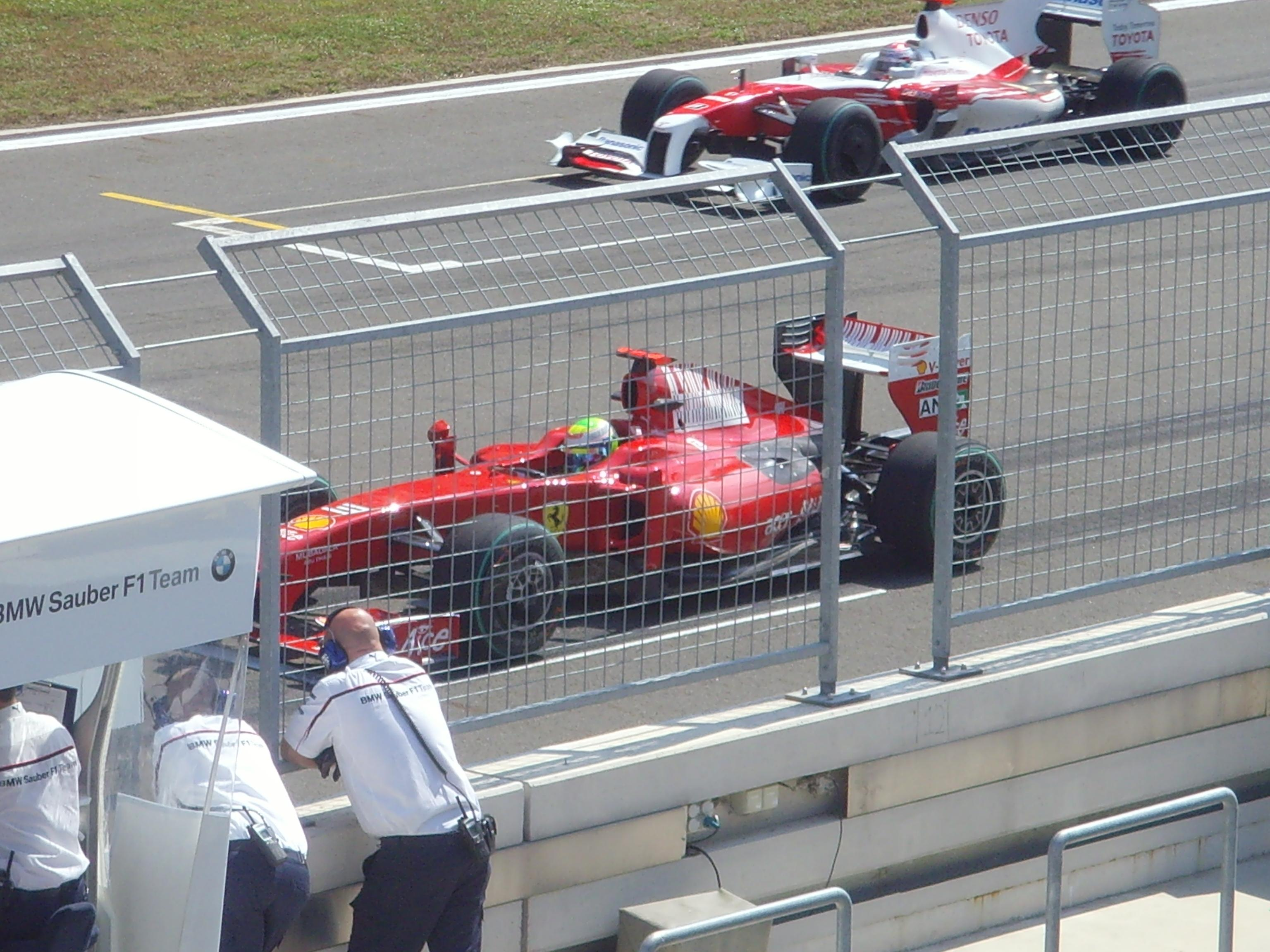 Felipe Massa and Jarno Trulli on start grid for start practice at the end of practice session on Friday of 2009 Turkish Grand Prix weekend.